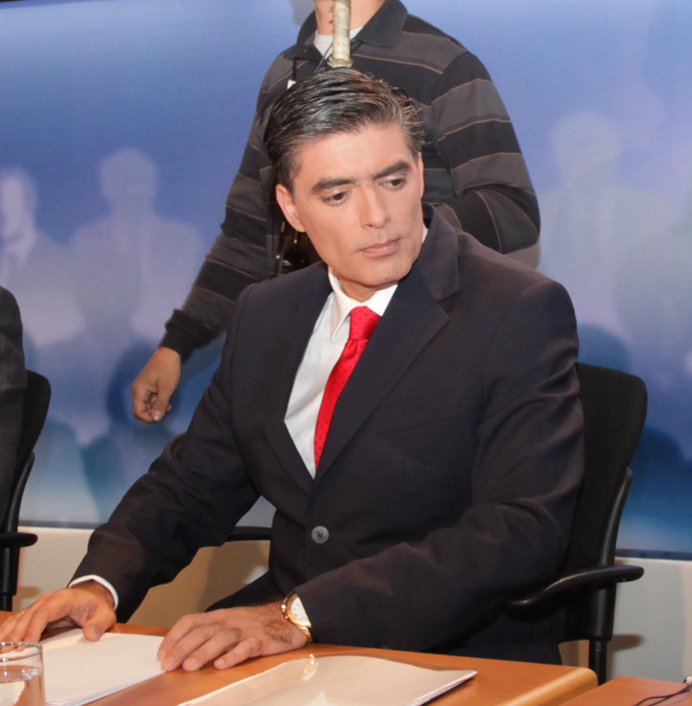 Journalist Nikos Evaggelatos at the six party leaders' televised debate ahead of the 2009 Greek legislative elections.